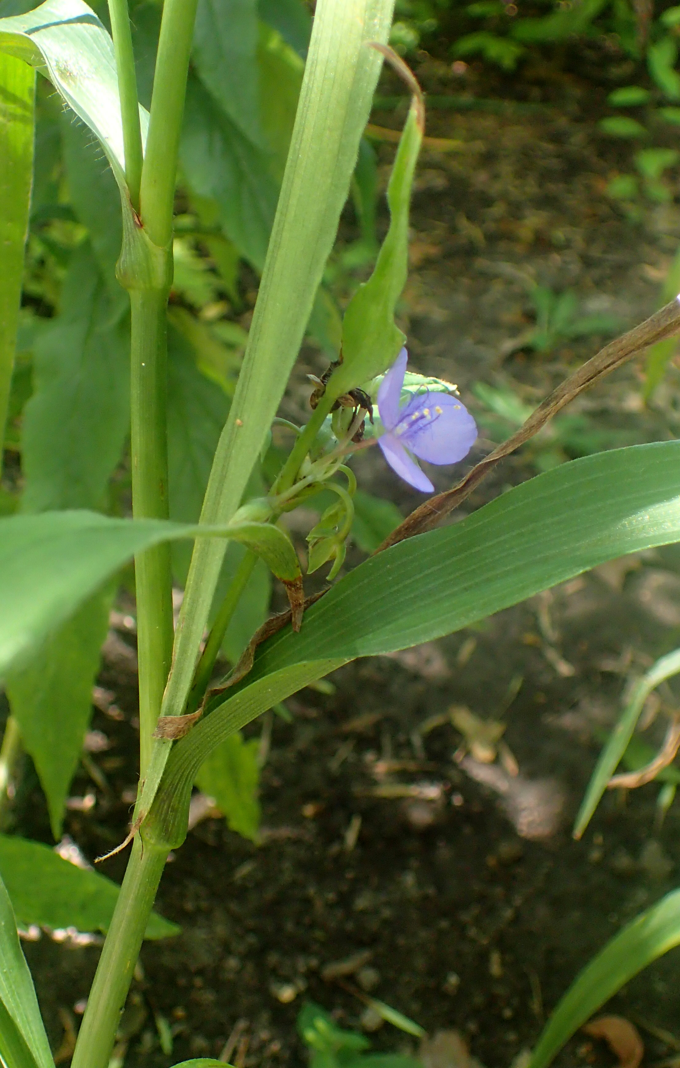 Tradescantia subaspera in the Missouri Botanical Garden, St. Louis